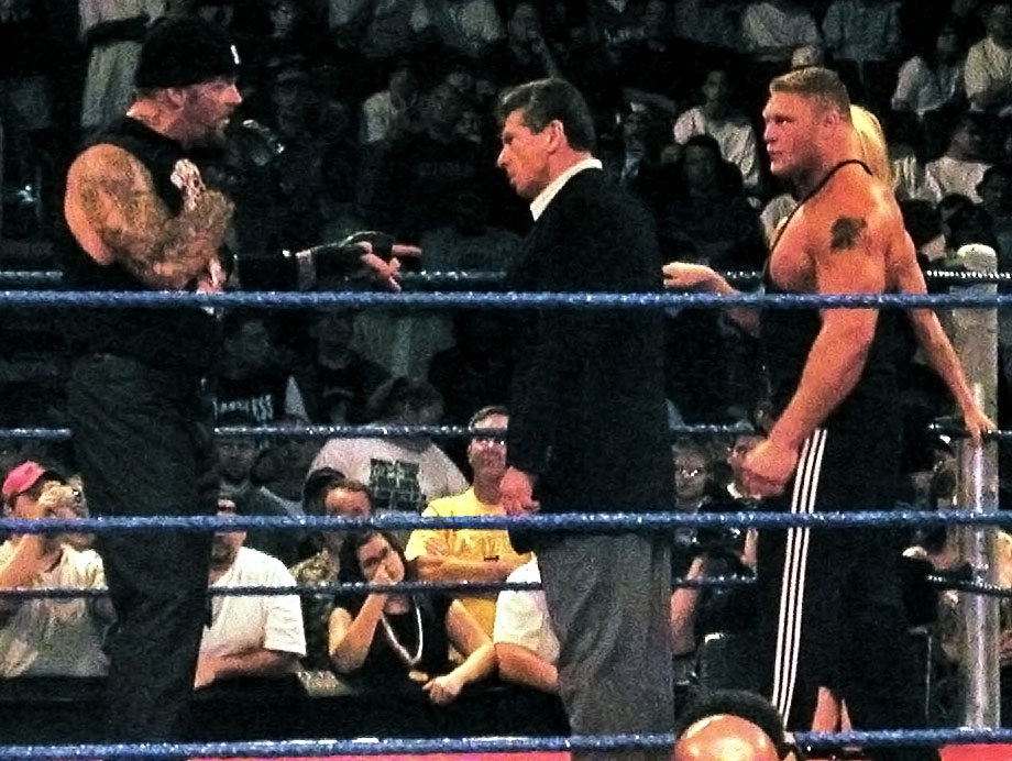 From left-to-right: Undertaker (real name Mark Calaway), Vince McMahon, Brock Lesnar and Sable (hidden behind Brock, the blond hair is hers).